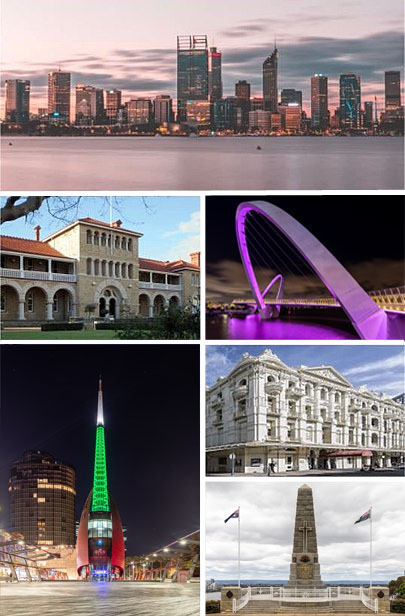 Perth montage